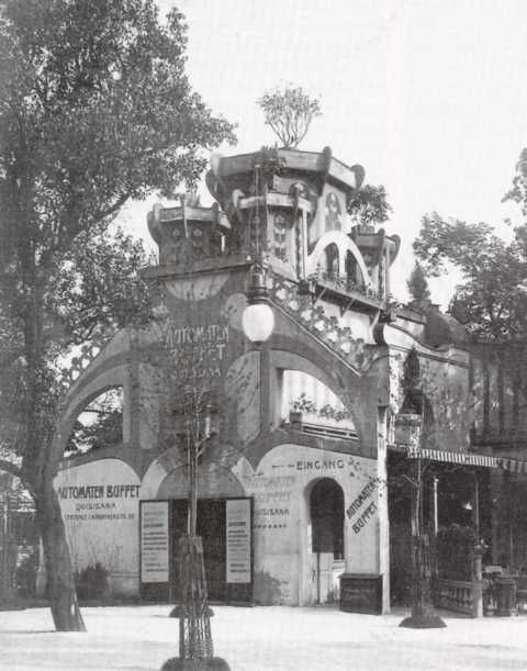 A picture of a branch of the the automat 'Quisisana' on Kärtnerstraße in Vienna.